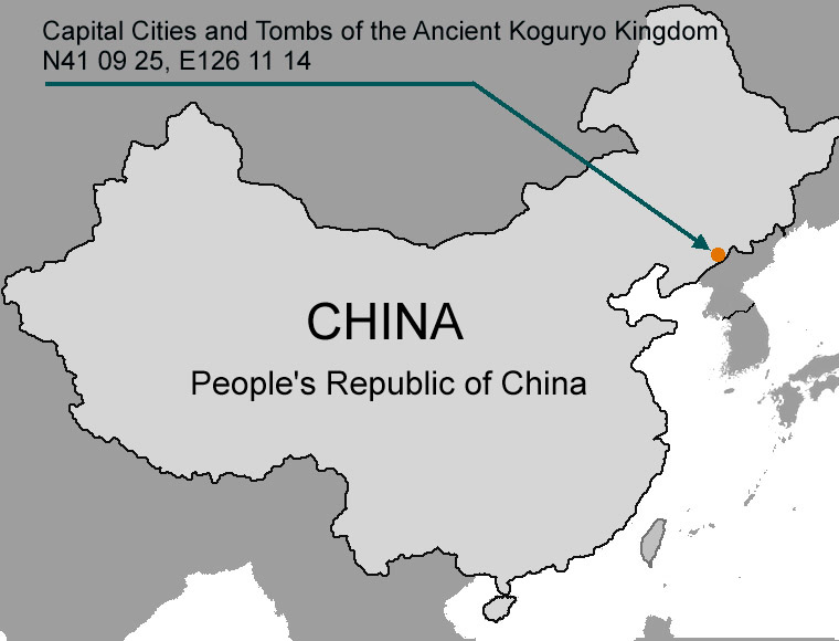 Illustration of Ancient Koguryo Kingdom added to UNESCO